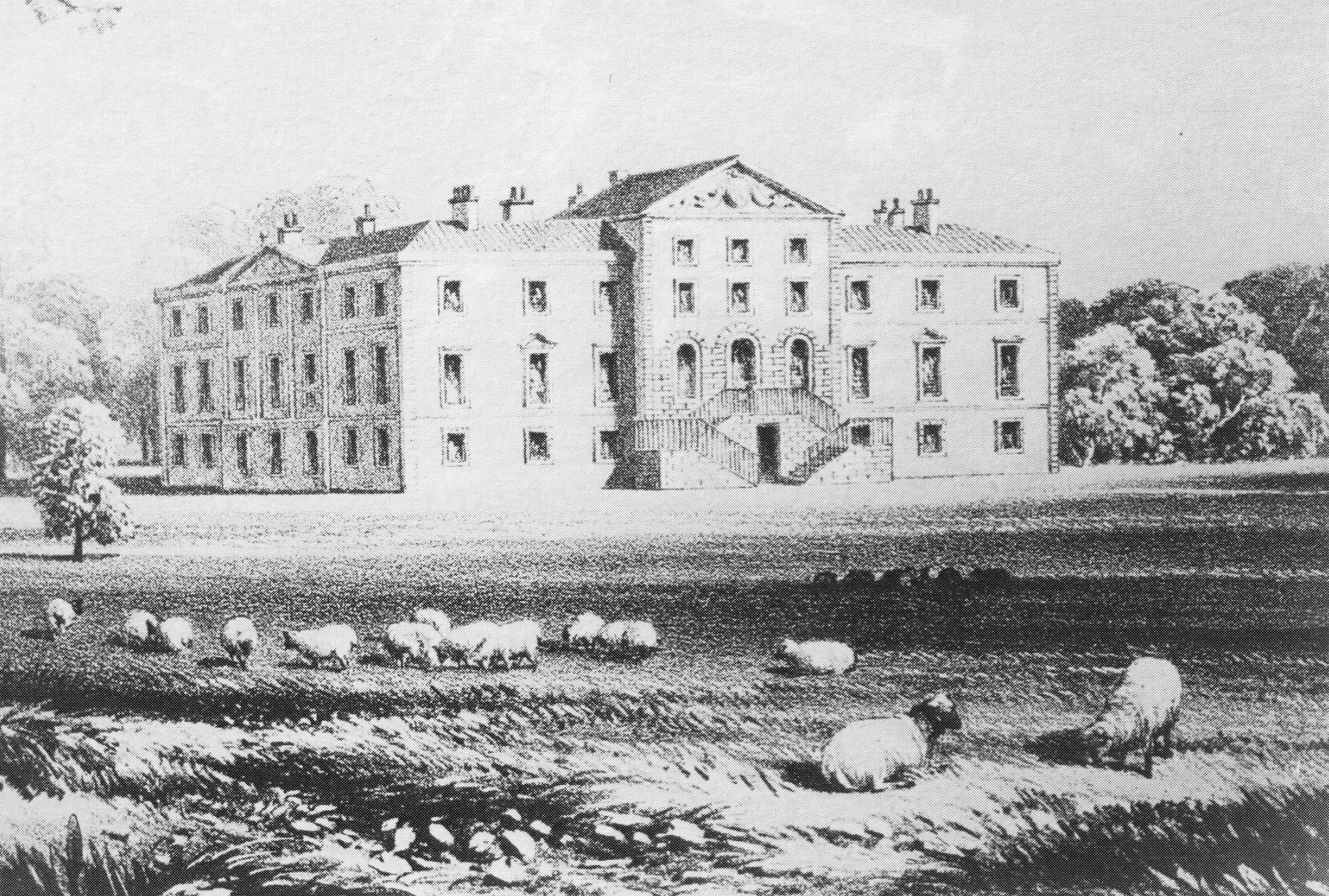 Drawing of the Georgian house at Norton Priory at some time between its building in about 1727 to the modifications of 1868. Scanned, cropped and enhanced by me.